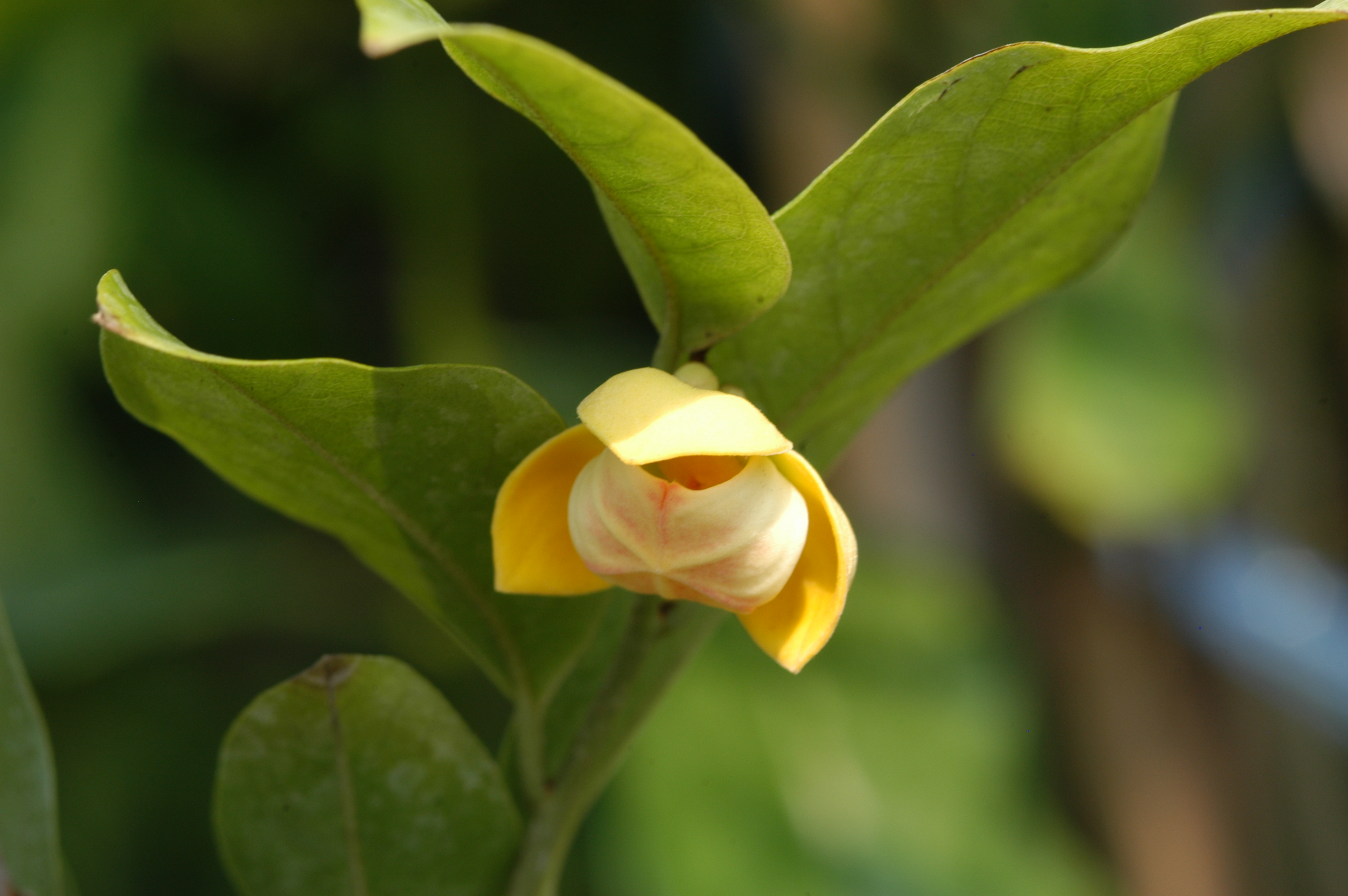 Mitrephora keithii